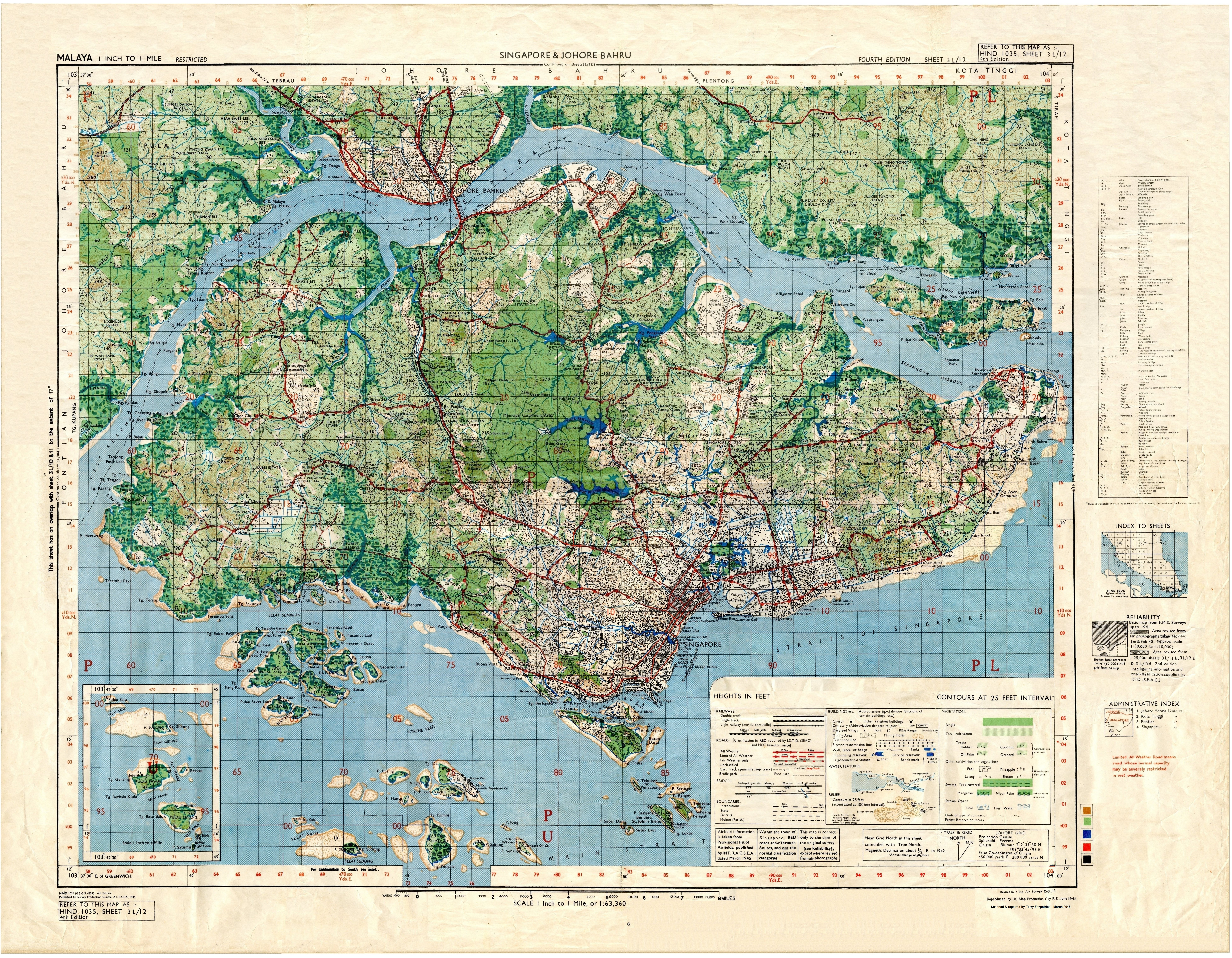 Detailed map with contour lines